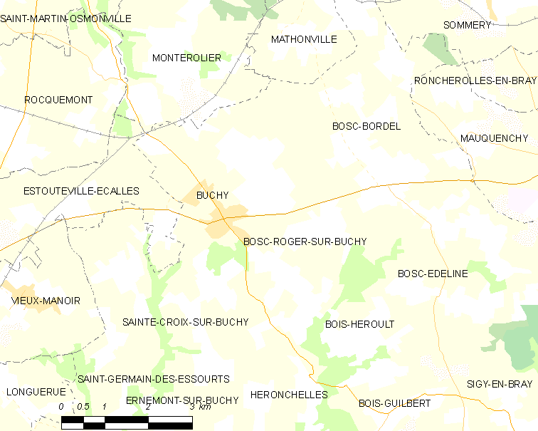 Map of French municipality Bosc-Roger-sur-Buchy